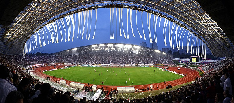 Hajduk - 100 years